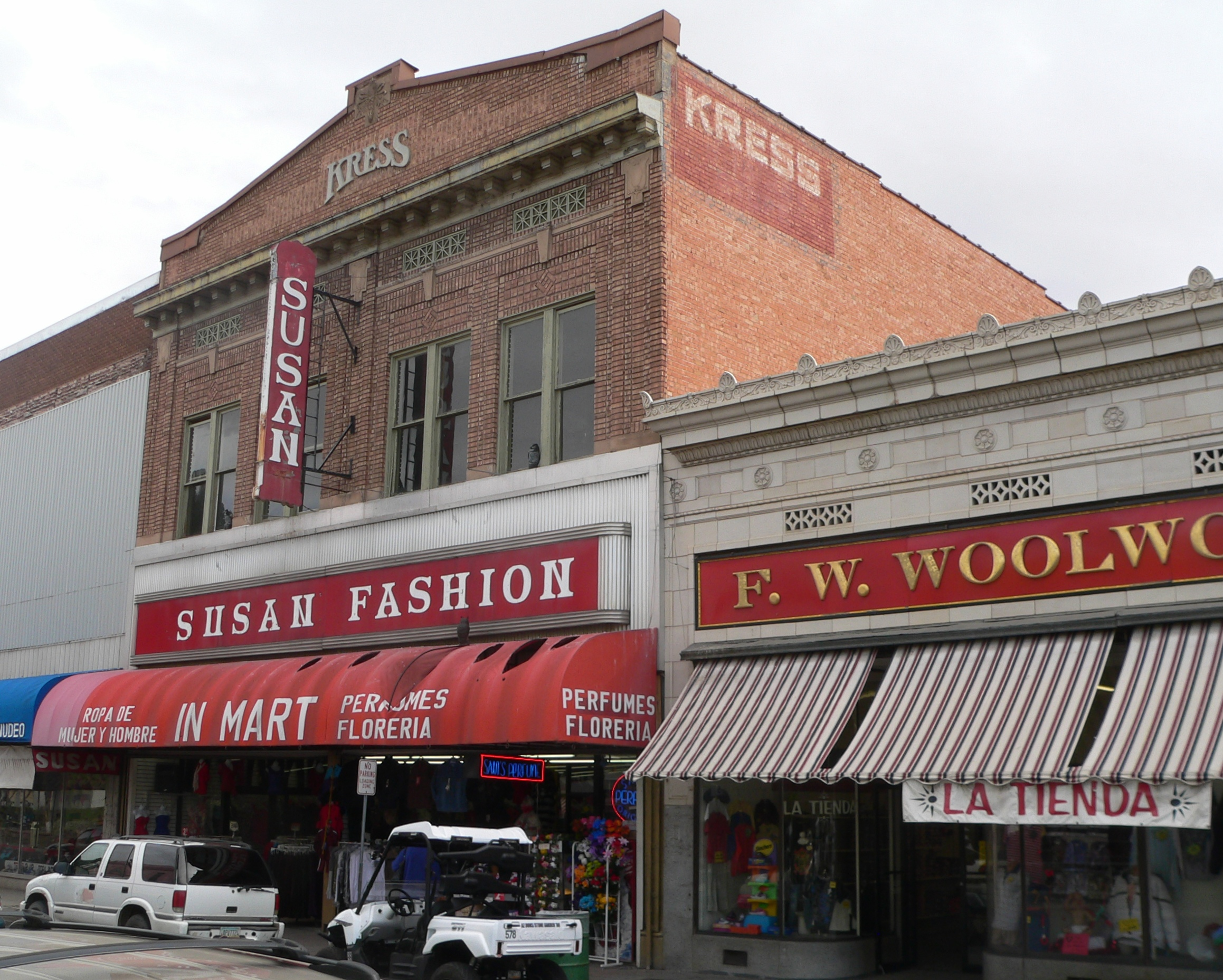 Kress building, located at 48 Morley Avenue in Nogales, Arizona.